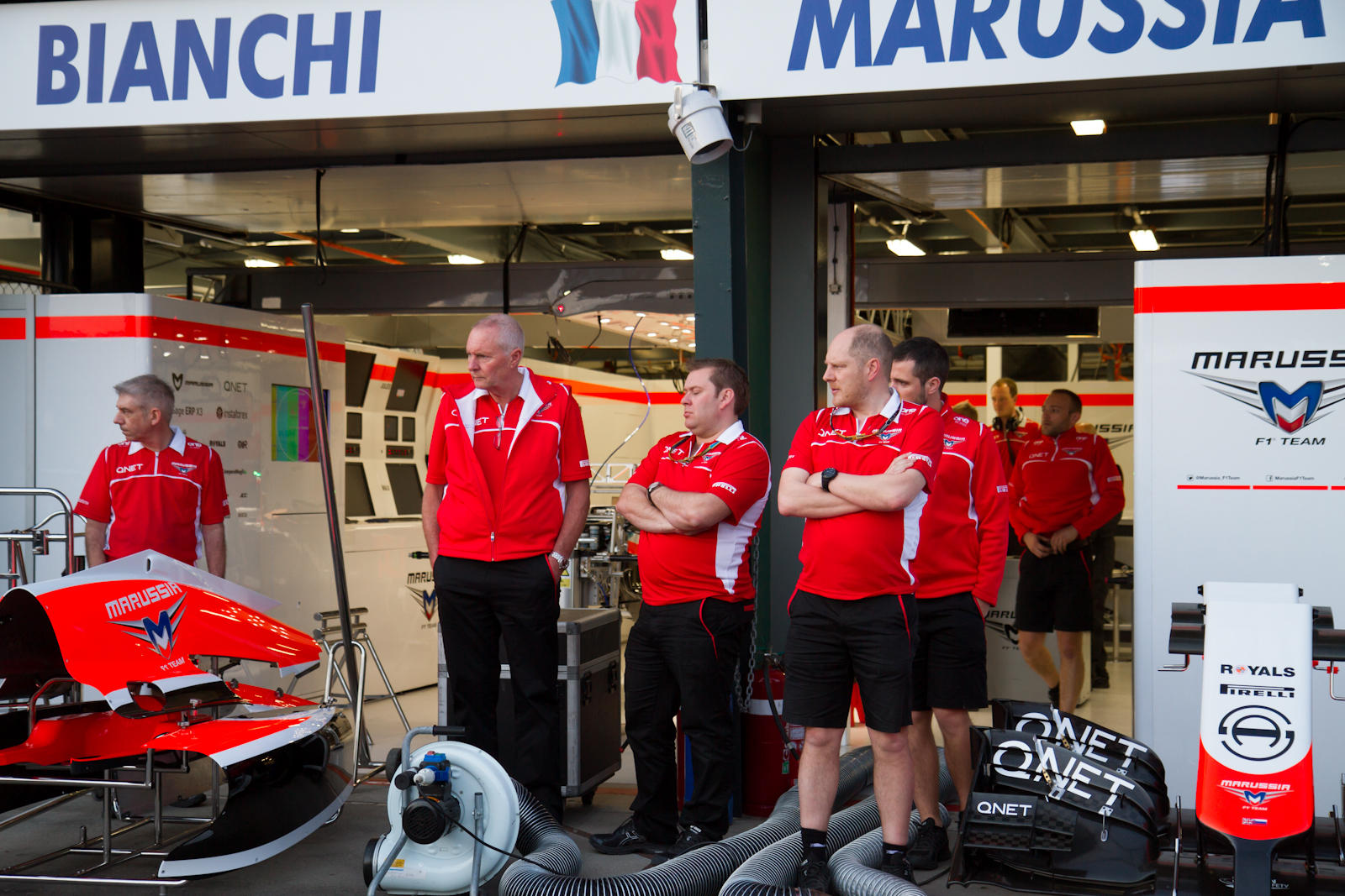 2014 Australian F1 Grand Prix